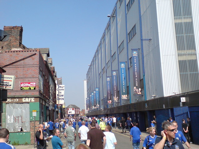 Goodison Road, Liverpool L4 The old and the new. To the right the main stand of Goodison Park, to the left the ageing Victorian Terraces of Goodison Road.